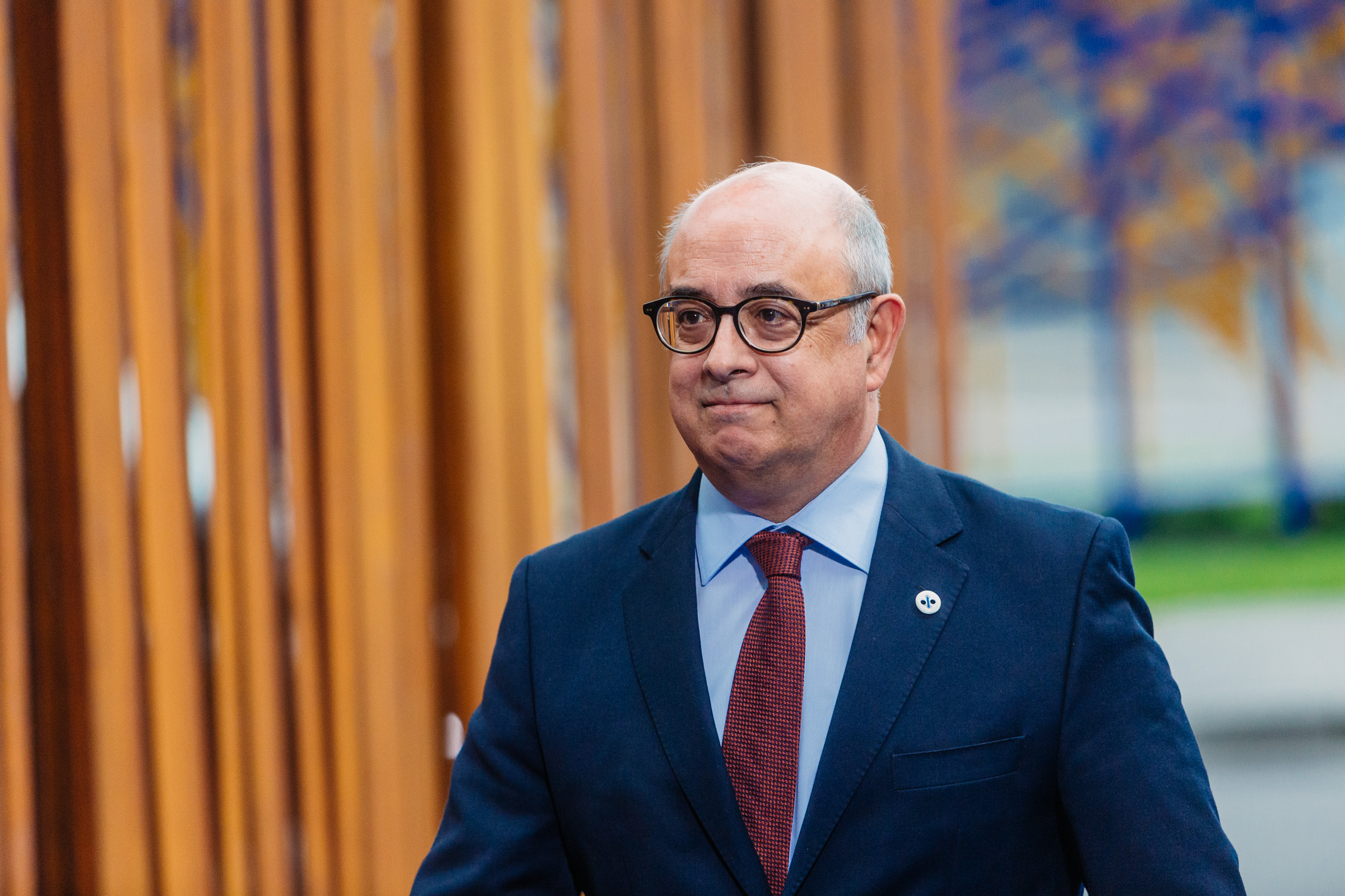 José Azeredo Lopes, Minister, Ministry of Defence Photo: Arno Mikkor (EU2017EE)